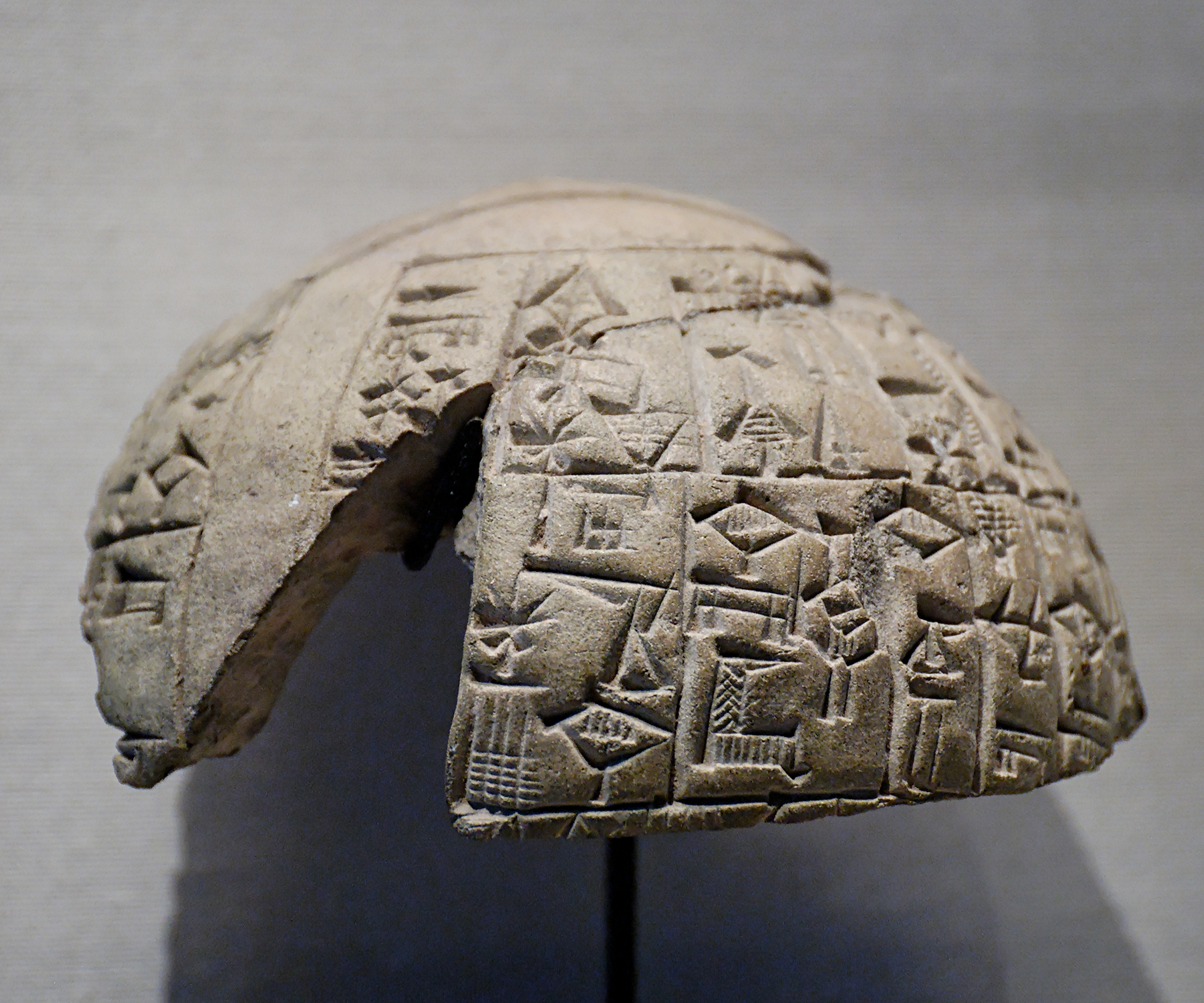 Clay cone of Eannatum, ensi (ruler) of Lagash, about the frontier conflict between Lagash and Umma.